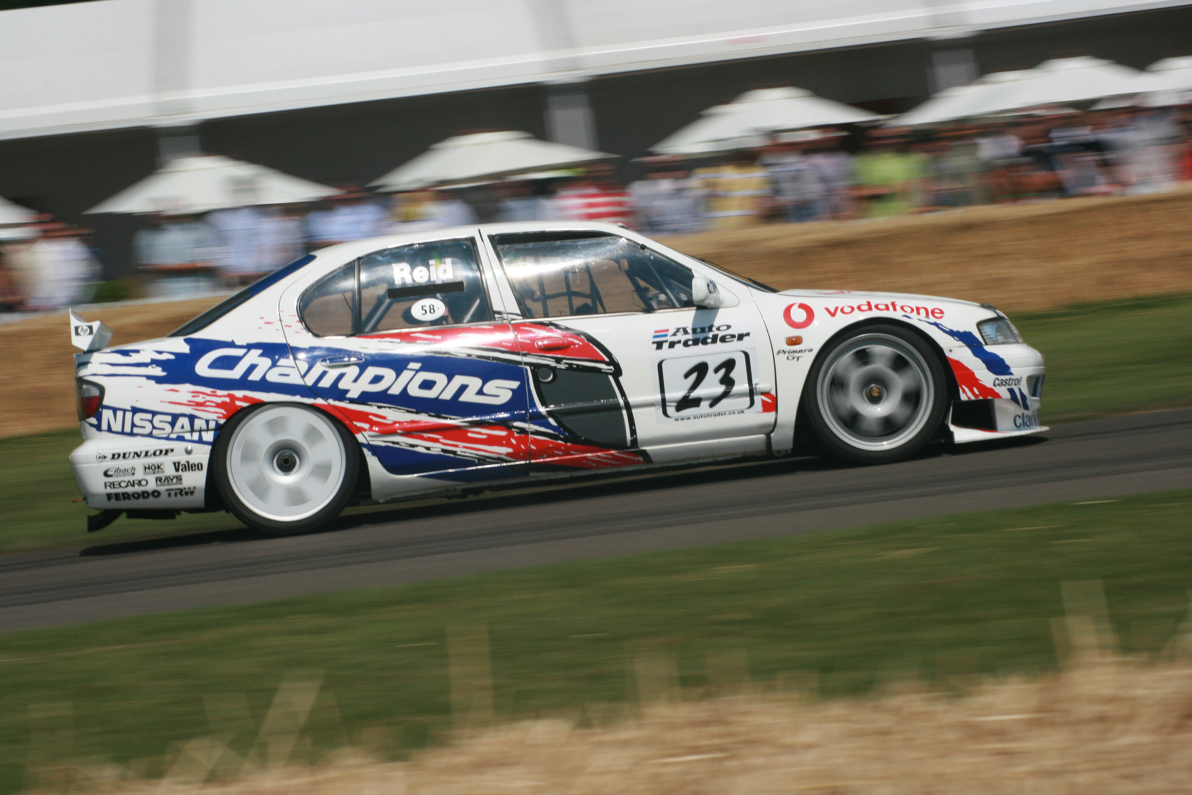 Anthony Reid in his 1999 Nissan Primera